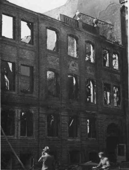 Domus Medica, Amaliegade 5, the office of the Danish Association of Physicians and a building from 1754 by Nicolai Eigtved, targeted by German terrorism in the night between June 7 and 8, 1944.